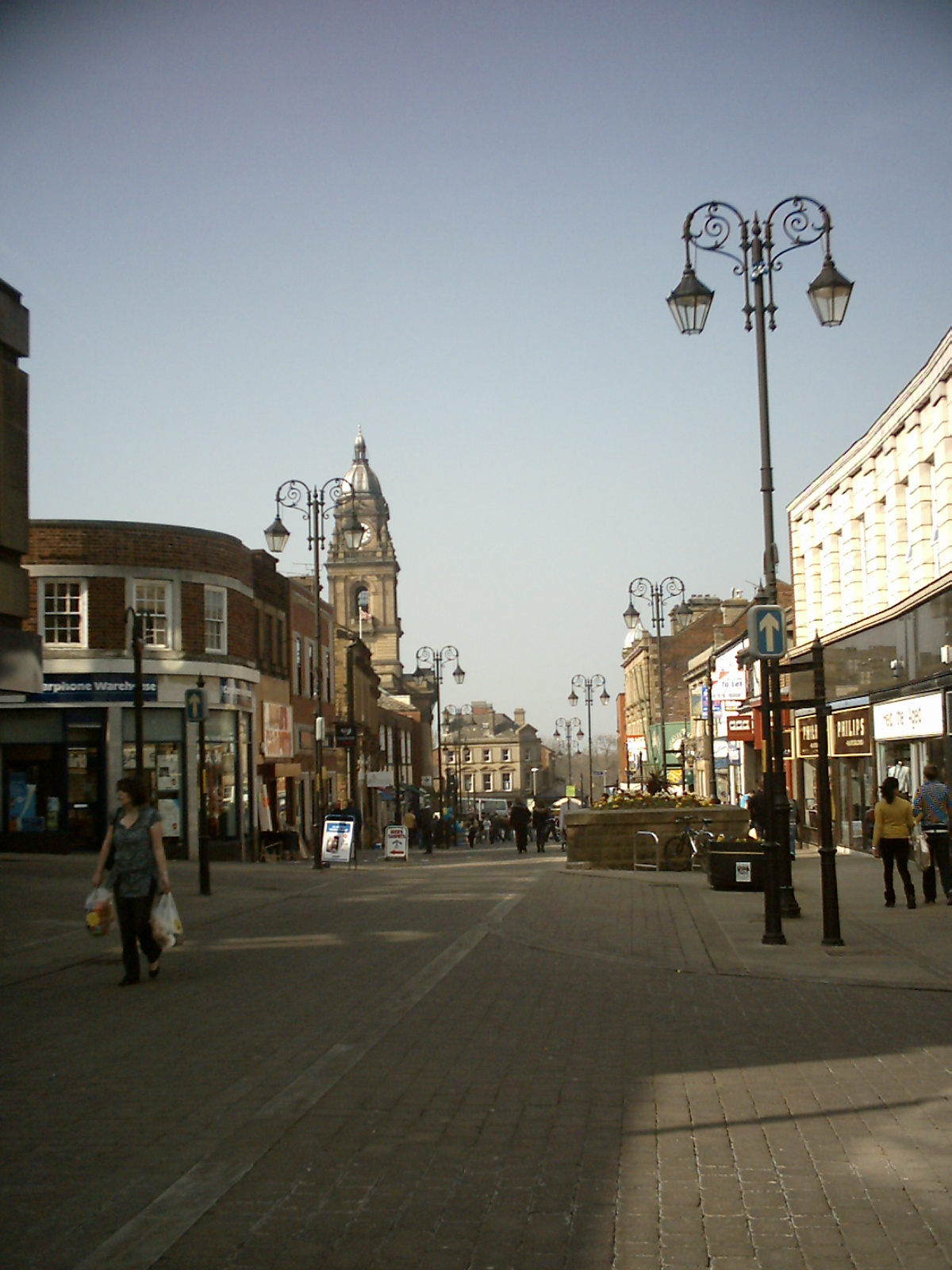 Queen Street, Morley, West Yorkshire